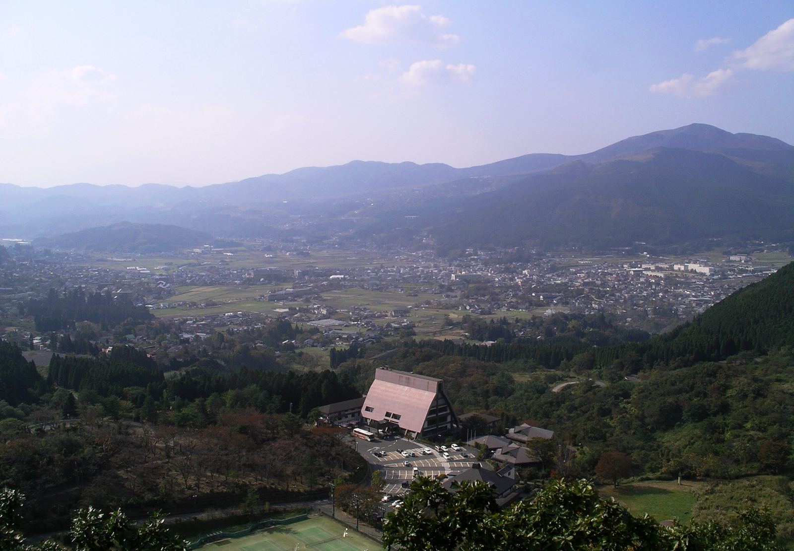 The town of Yufuin, Ōita Prefecture.